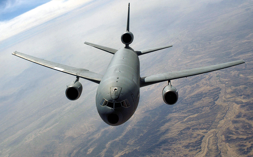 A 305th Operations Group KC-10 Extender resumes its flight pattern after receiving fuel from a KC-135 Stratotanker over Afghanistan